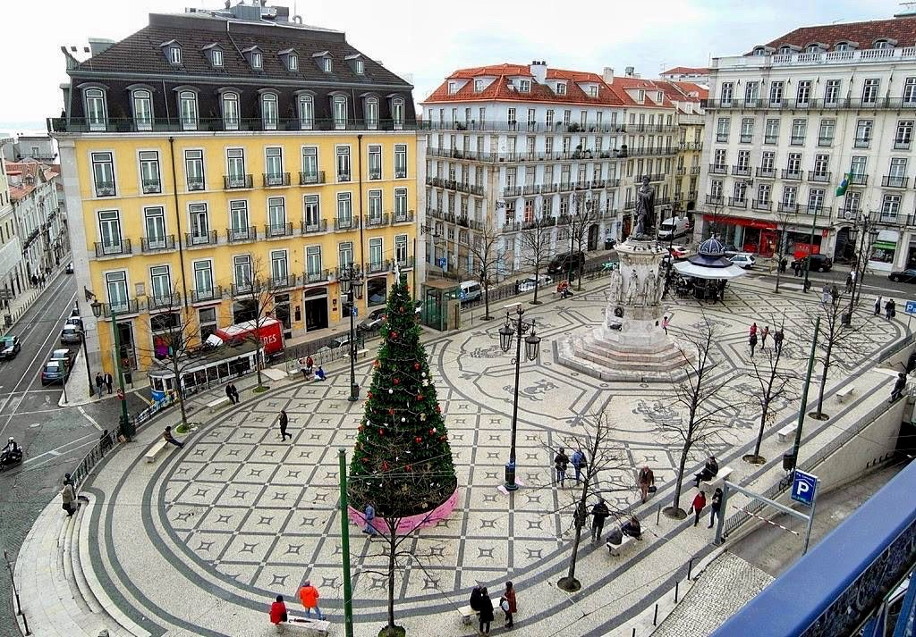 Camões Square, Lisbon.